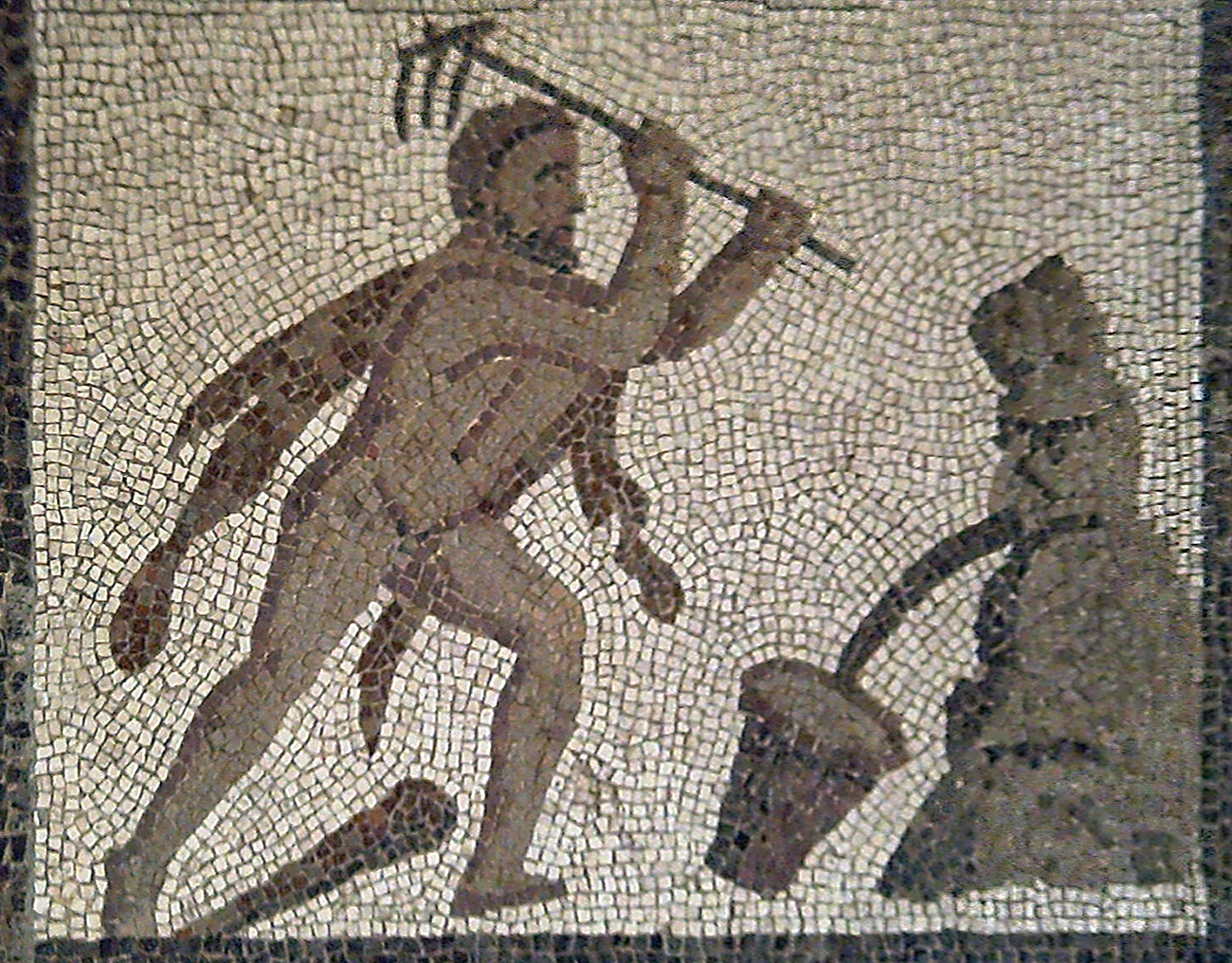 Hercules cleans the Augean stables by rerouting the rivers Alpheus and Peneus. Detail of The Twelve Labours Roman mosaic from Llíria (Valencia, Spain).